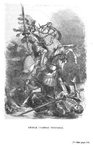 Drawing from 1845 depicting George Cressiac unhorsed by Lord Willoughby. Drawing from 1845 from the book "Five Generations of a Loyal House: Part I: Containing the Lives of Richard Bertie and His Son Peregrine and Lord Willoughby"